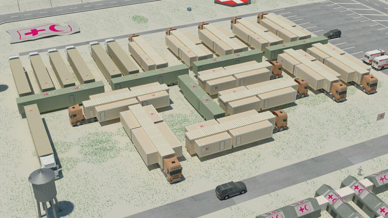 the ambit of a mobile hospital